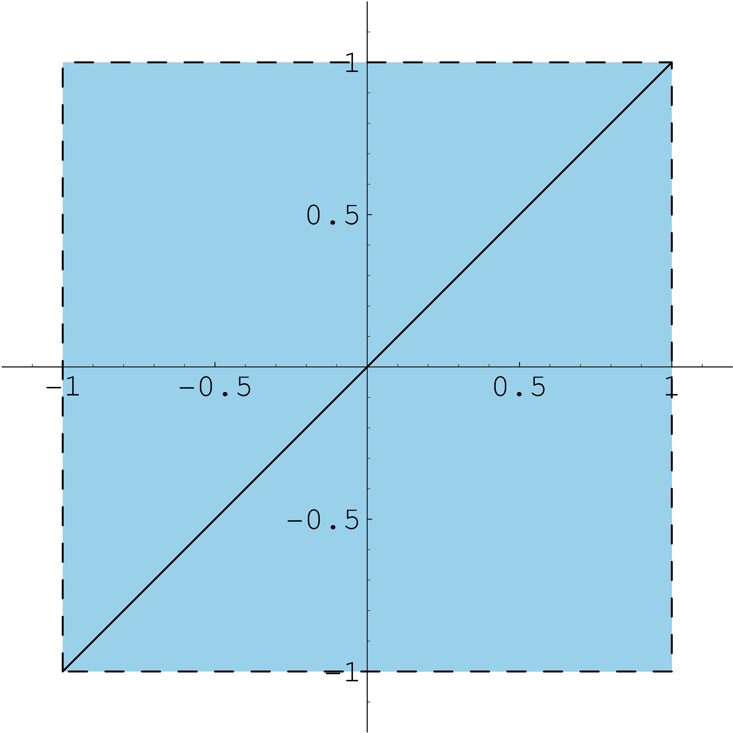 Wrapping effect in interval arithmetic.